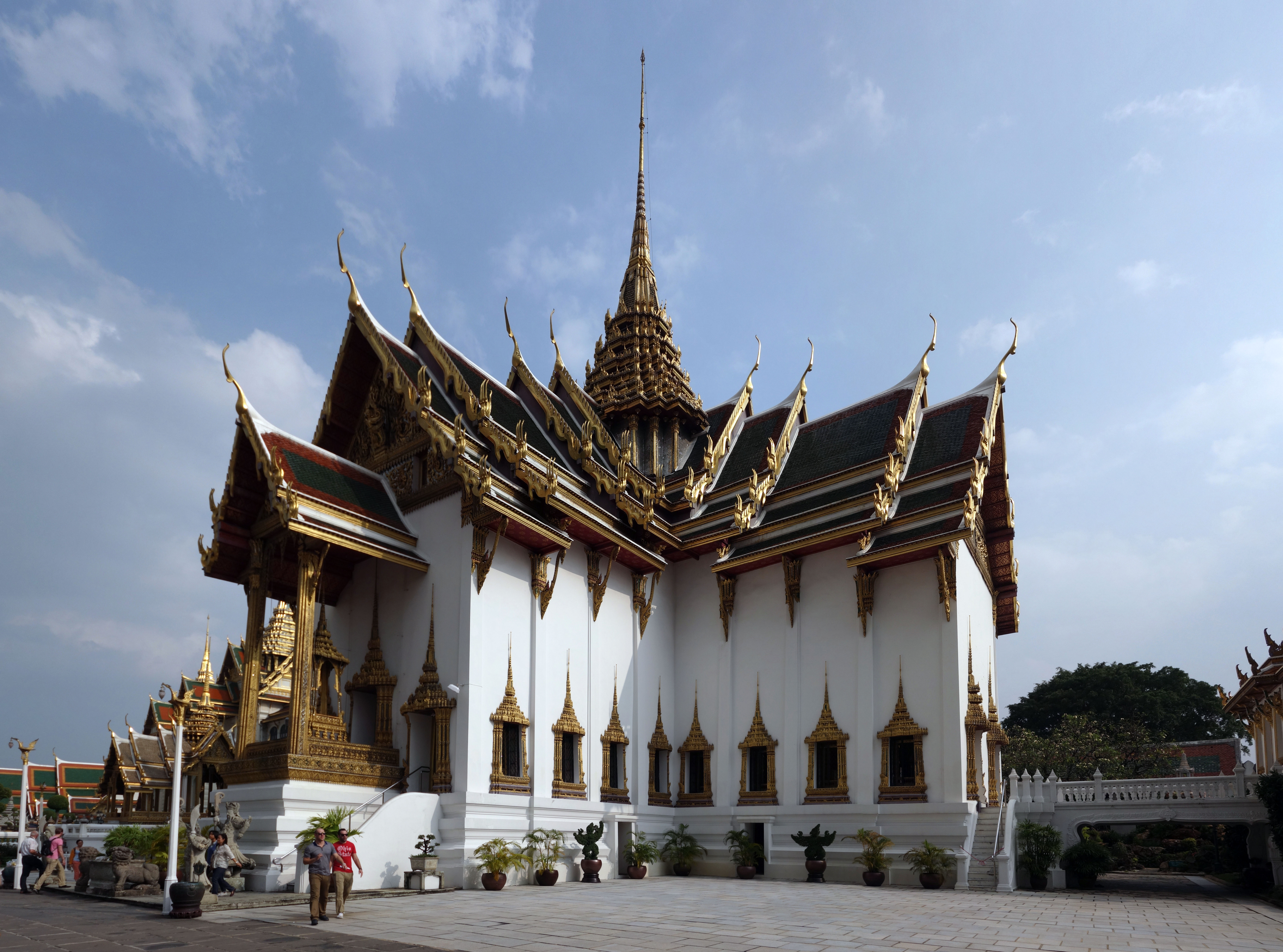 Throne Hall Building